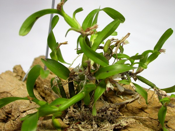 Scaphyglottis sickii